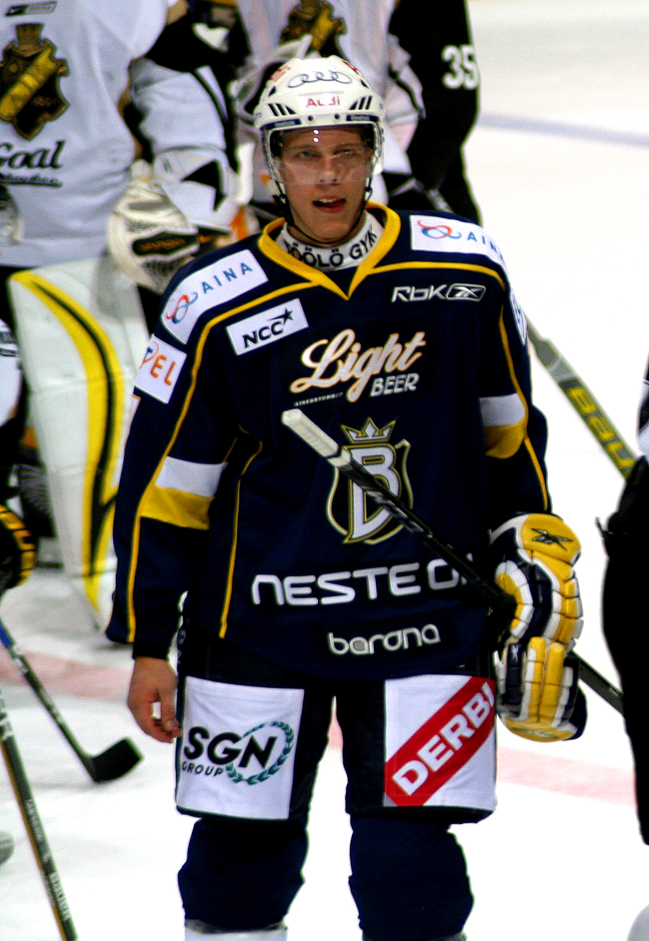 Ice Hockey Team Espoo Blues' Defender #7 Ari Gröndahl